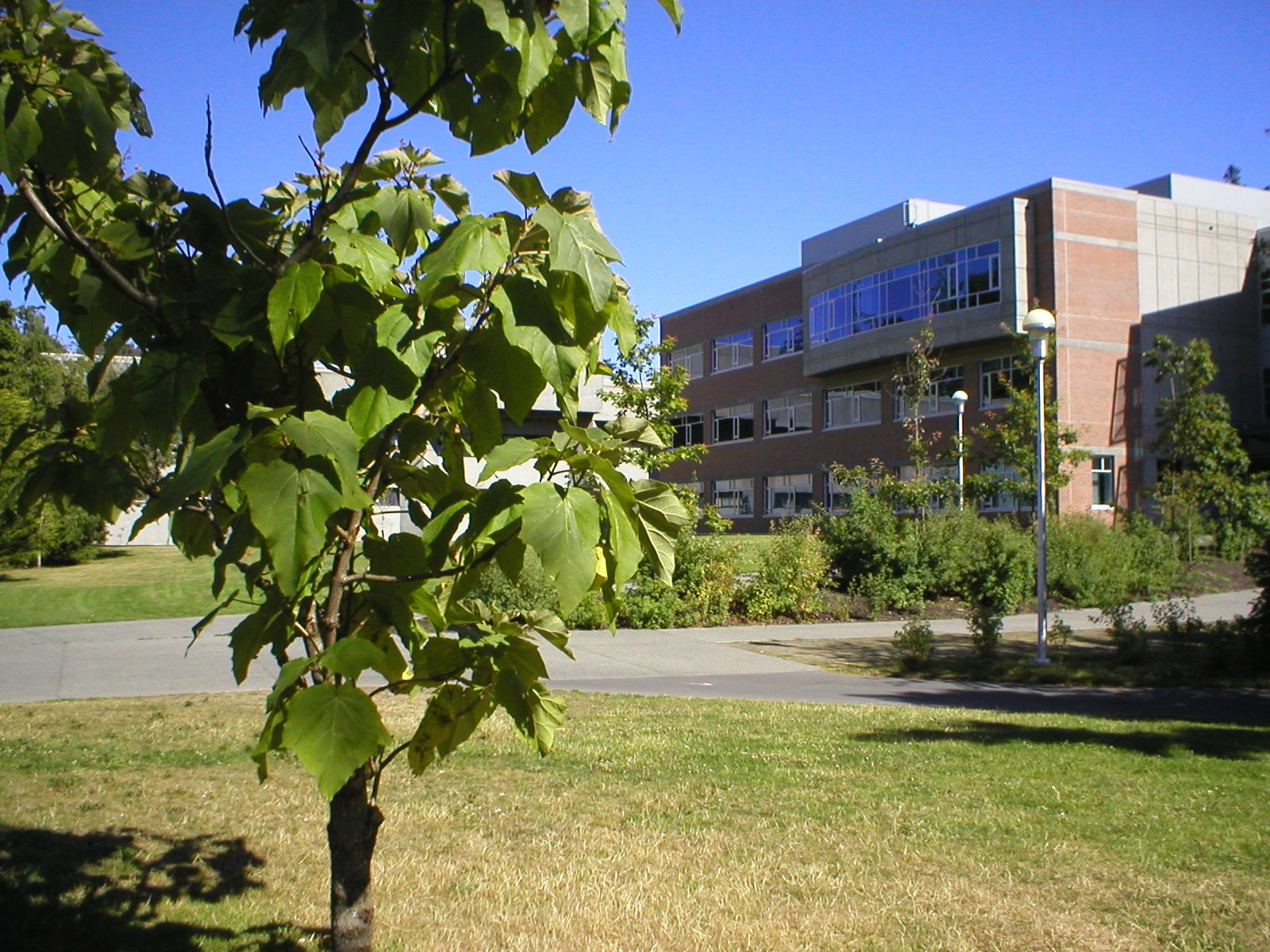 Building of the Island Medical Program at the University of Victoria, Victoria, BC, Canada.